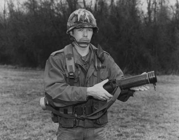 Photo of General Dynamics FGR-17 Viper one man disposable antitank weapon in carry position. Photo taken at Ft Benning, GA and with the Red Stone Arsenal archives. Viper was canceled by Congress in 1983